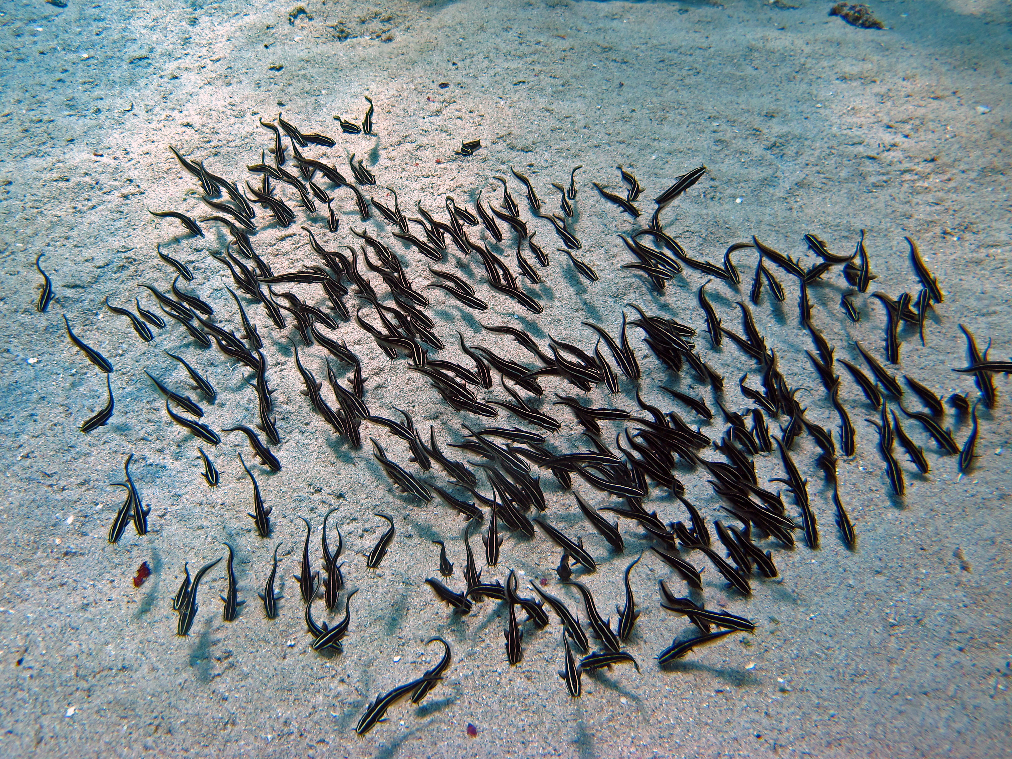 Plotosus lineatus at Bunaken National Park